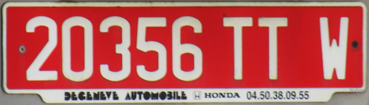 20356 TTW French free zone license plate (Gex)